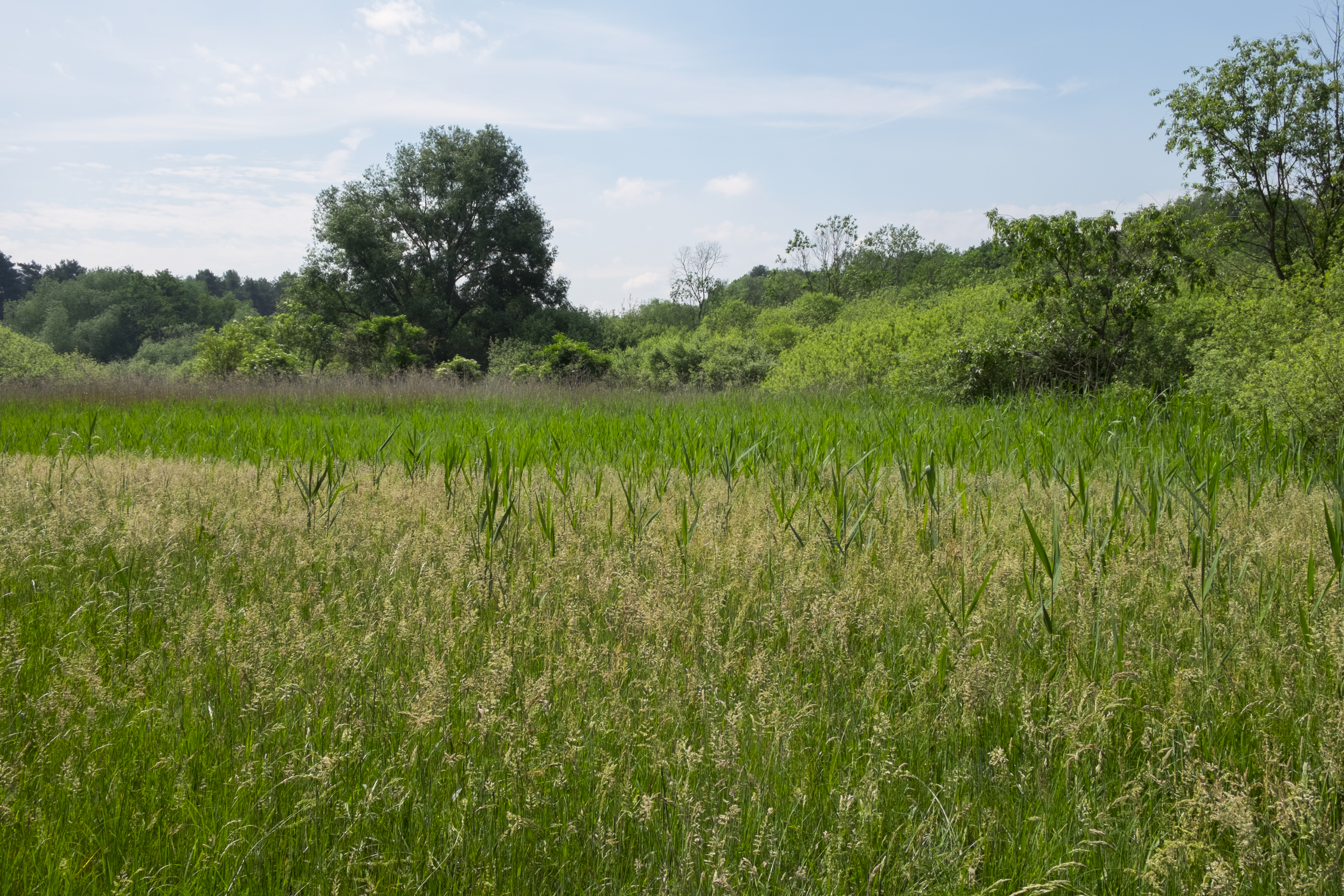 Sutschketal Nature Reserve in the state of Brandenburg, Germany. A meadow.